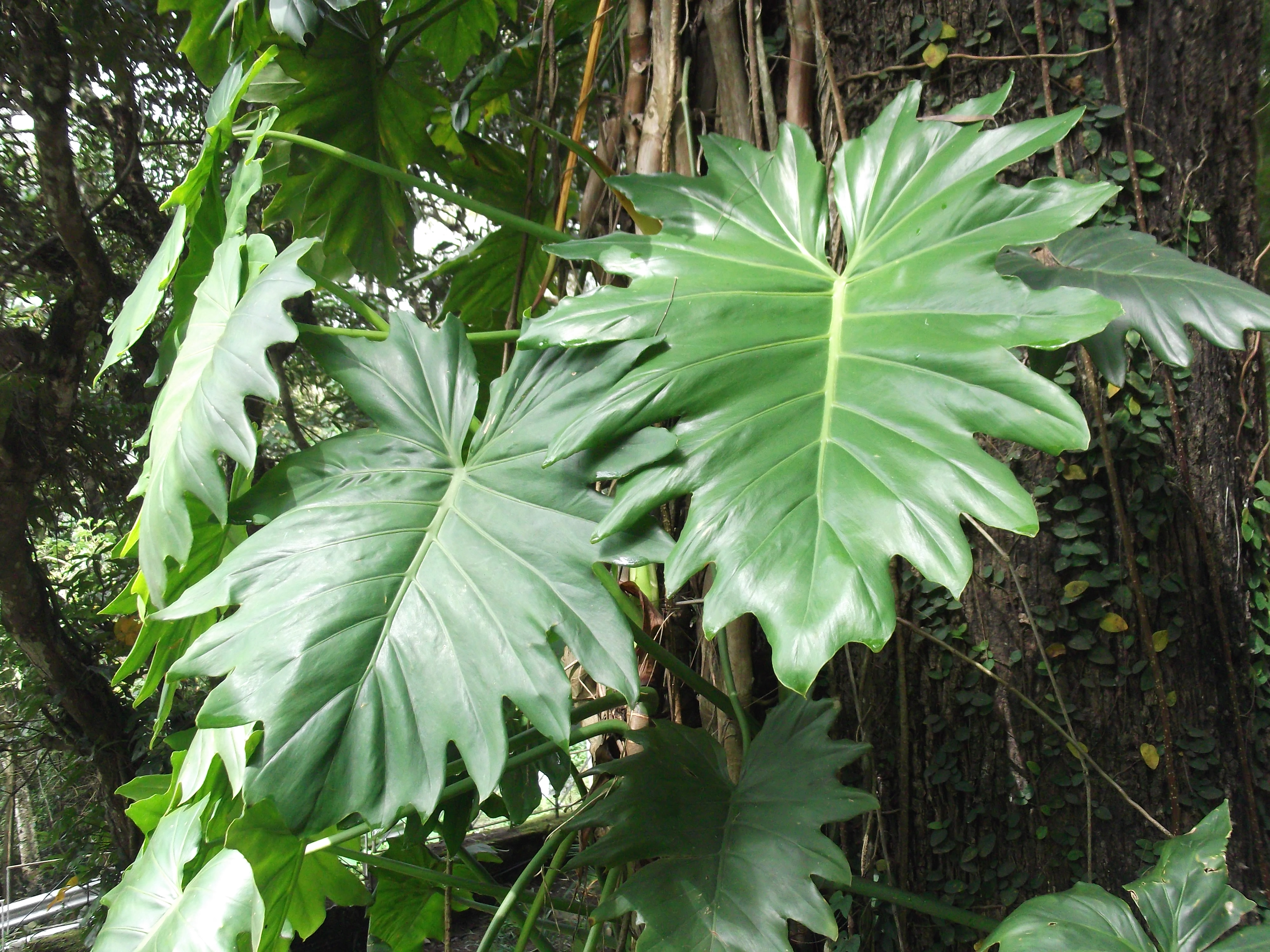 Stem climber,leaves ovate,undulate margin,evergreen.